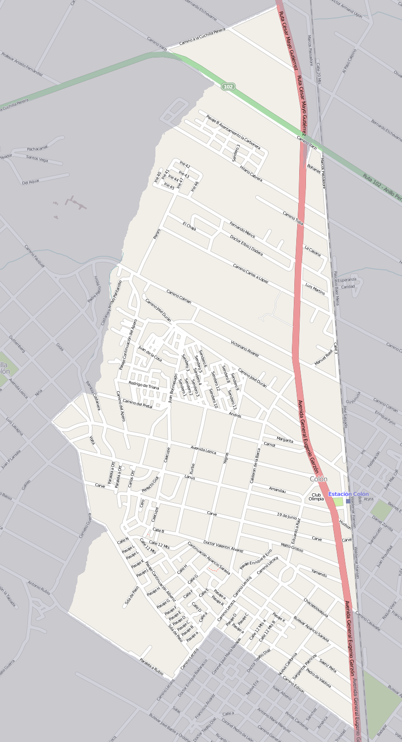 Street map of Colón Centro y Noroeste, Montevideo, exported from OpenStreetMap. I added shading to delimit the barrio. This map may be incomplete, and may contain errors. Don't rely solely on it for navigation.